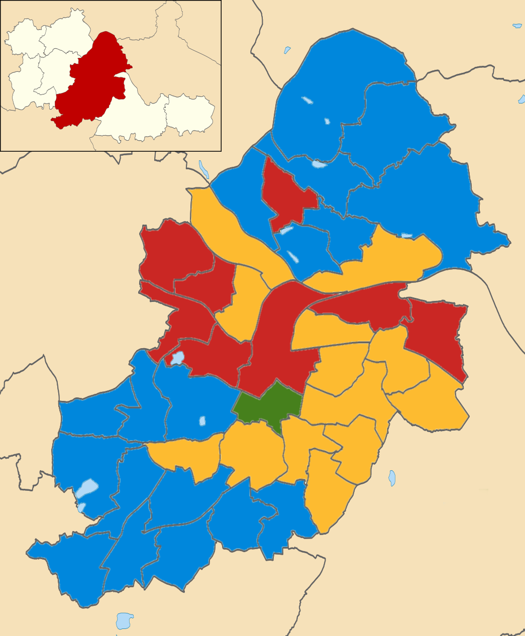 Results of the 2008 local elections in Birmingham Colours: Conservative Labour Liberal Democrat Respect